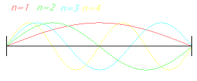 Fixed-fixed resonance